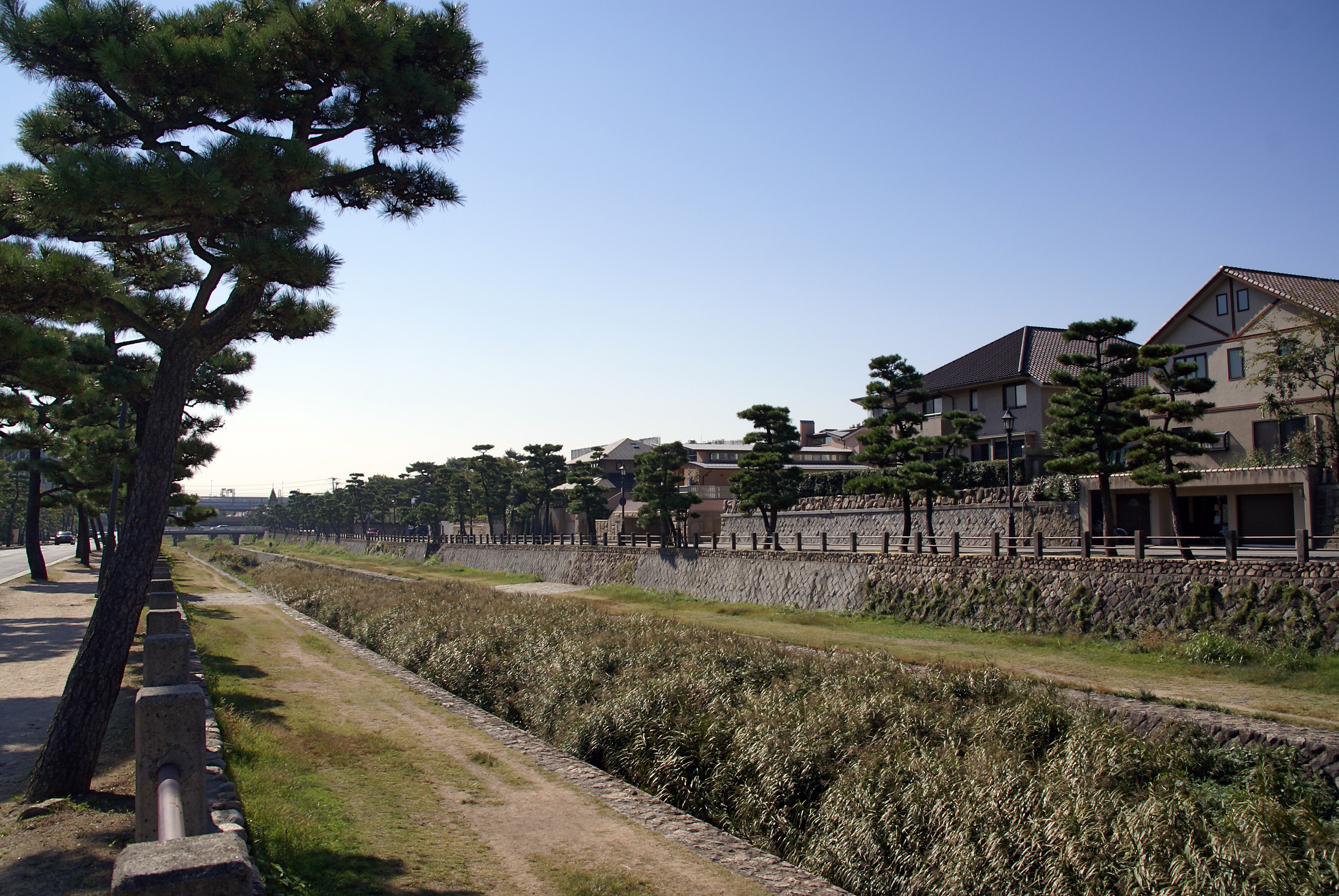 Ashiya River in Ashiya, Hyogo prefecture, Japan